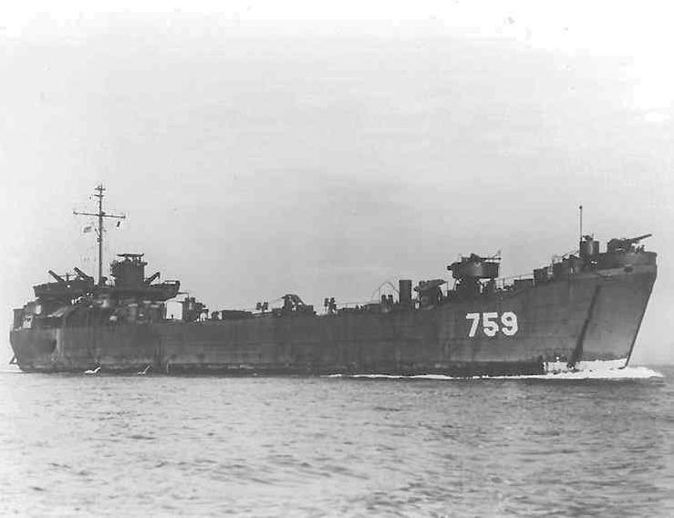 USS LST-759 underway in San Francisco Bay